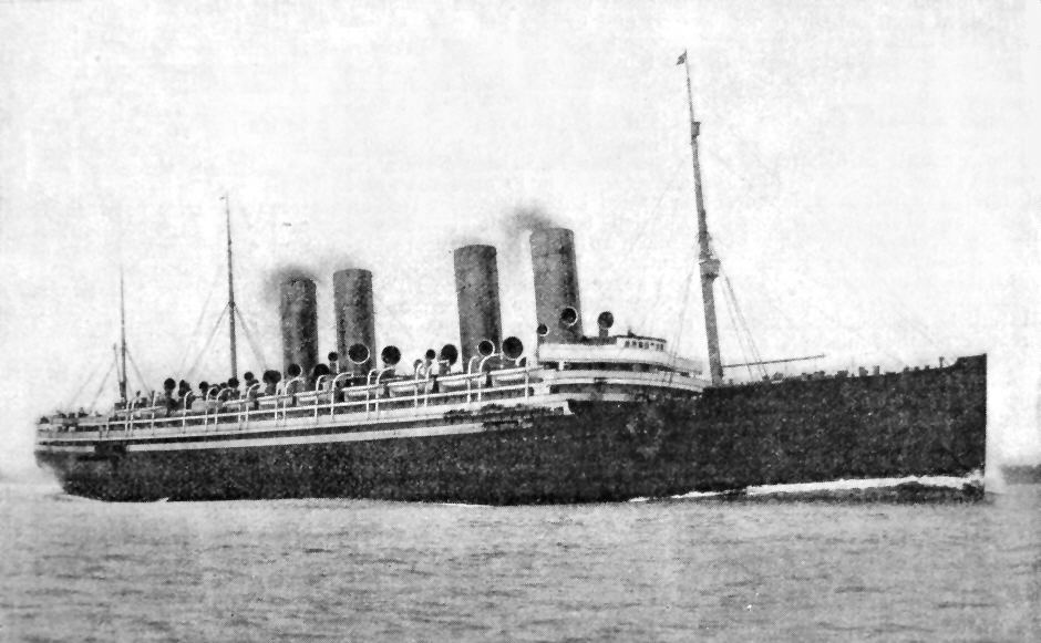 The Norddeutscher Lloyd liner Kaiser Wilhelm II, which at the time of its maiden voyage from Bremerhaven to New York in april of 1903 was one of the largest express steamers in the world (20,000 tons gross; 620 crew; accommodation for 1,887 passengers; speed over 23 knots). In the year 1904 the ship won the “Blue Riband” for the fastest crossing of the Atlantic ocean.